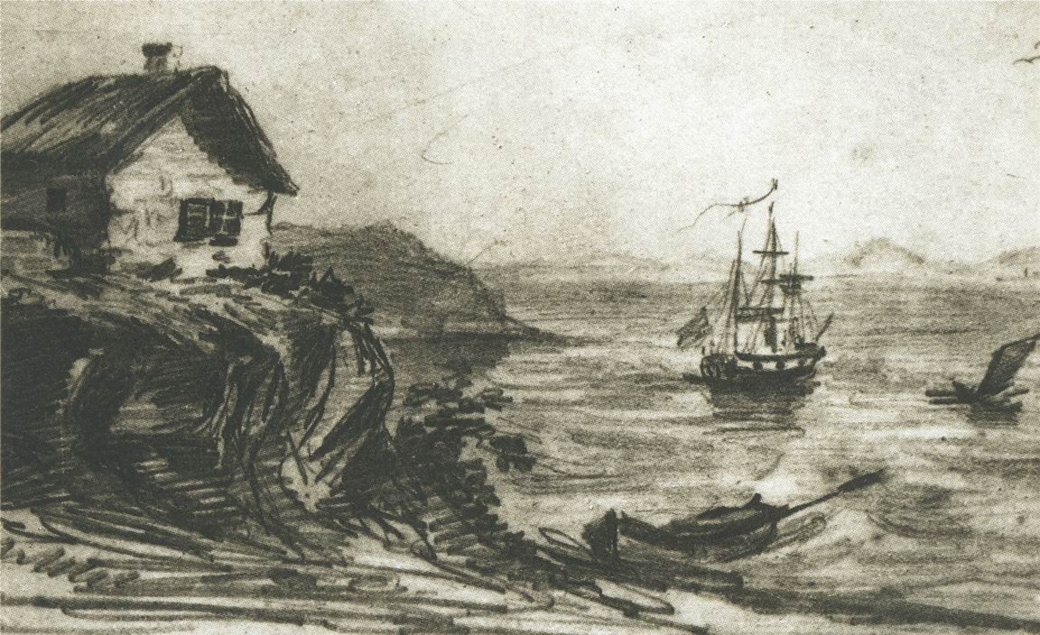 Taman